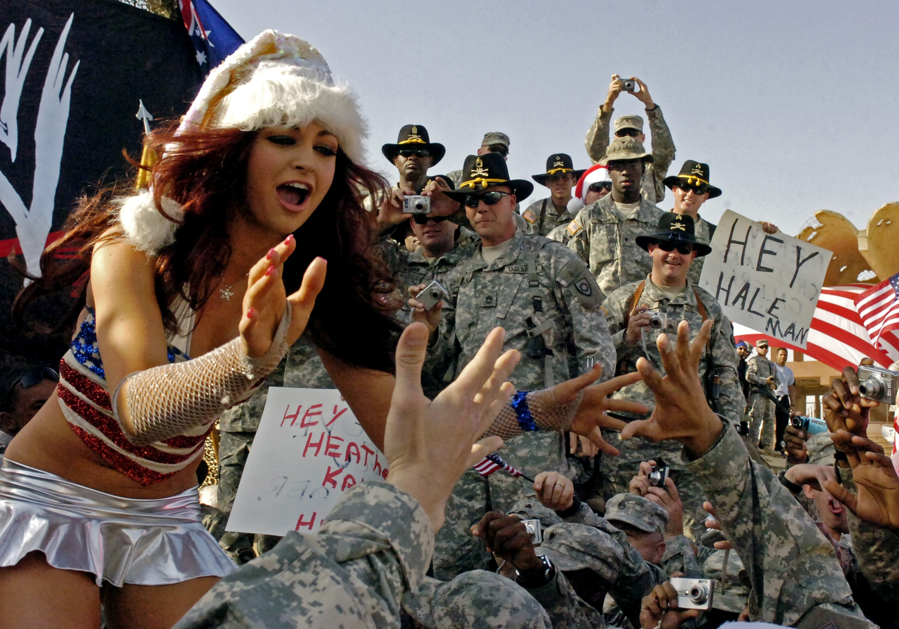 WWE Diva Maria with the U.S. troops in Contingency Operating Base Speicher, Tikrit, Iraq